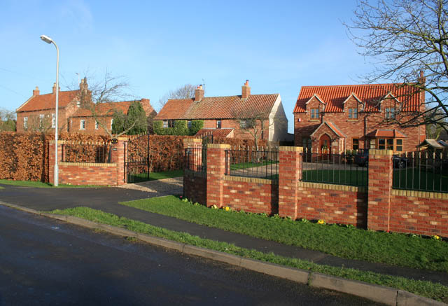 Houses on Church Street, Long Bennington The back gardens of some of these houses go down to the River Witham. See 301643.